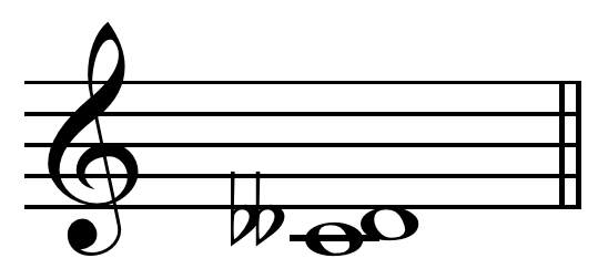 Diminished second on C = D. Just: = 62.57 cents. Equal-tempered: 20/12:1 = 0 cents.